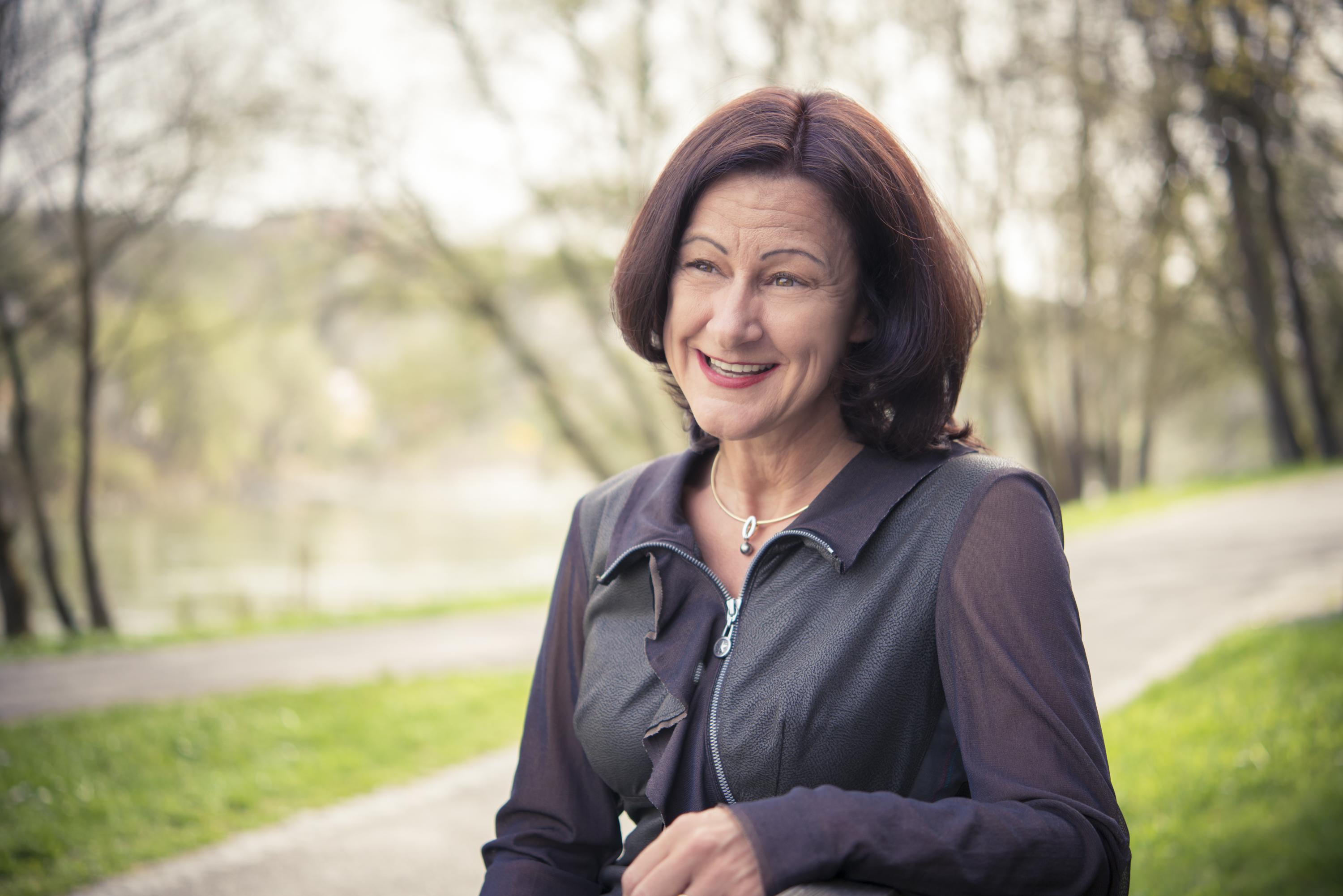 Professor Reutner